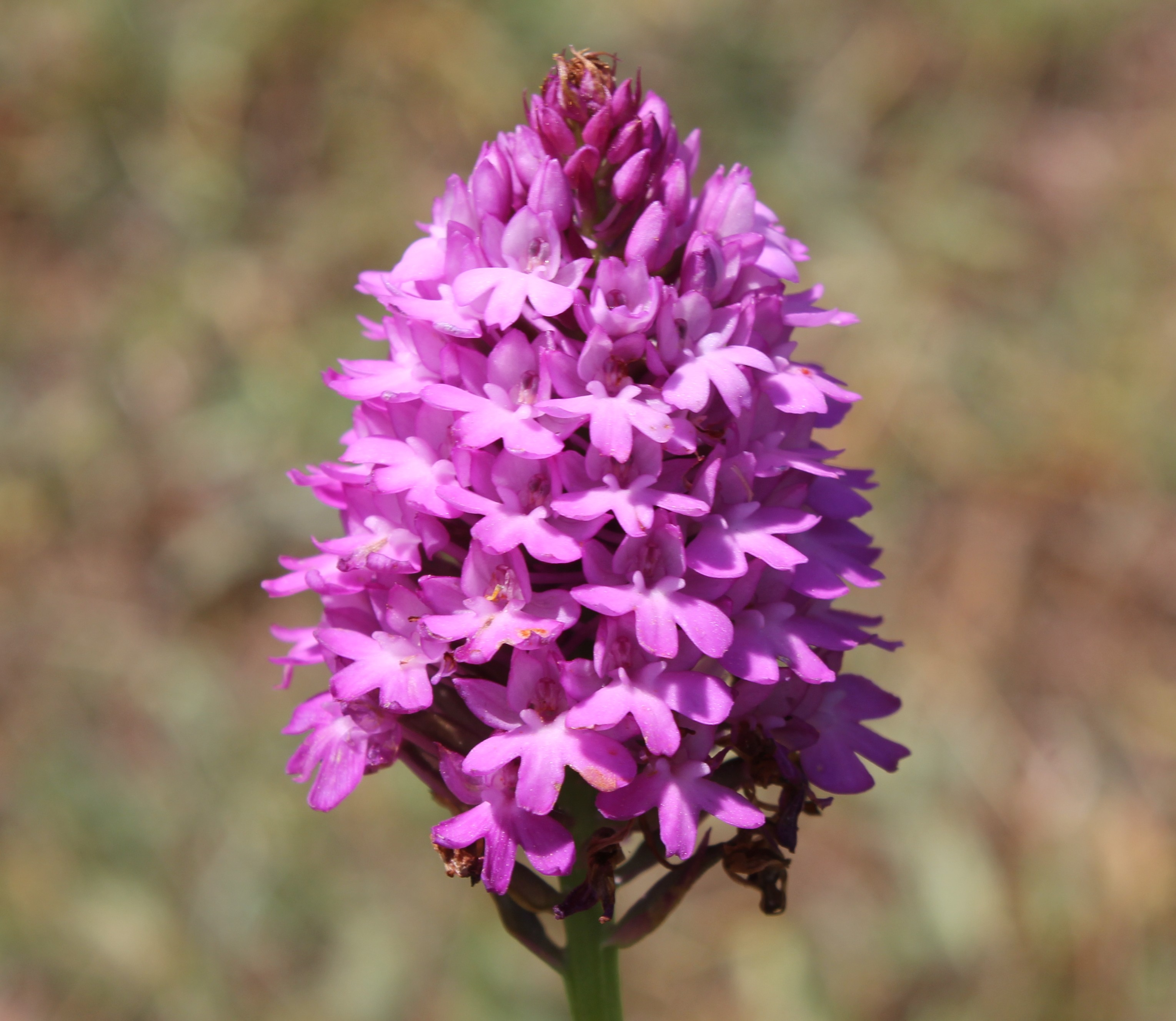 Anacamptis pyramidalis inflorescence